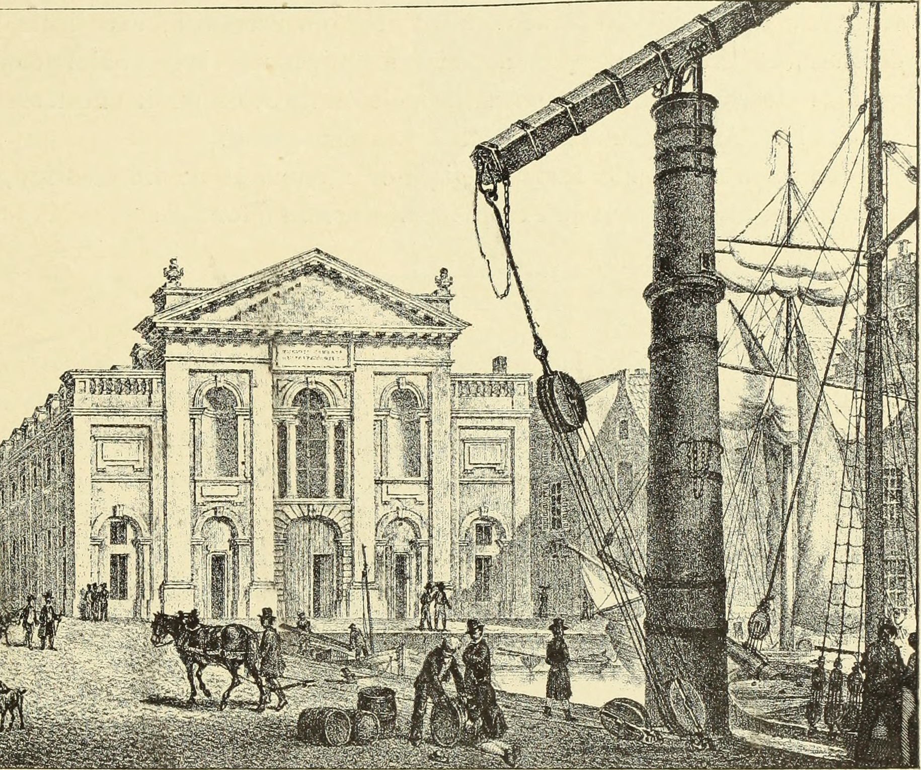 Title: Bruxelles à travers les âges Year: 1884 (1880s) Authors: Hymans, Louis Salomon, 1829-1884 Hymans, Henri, 1836-1912 Hymans, Paul, 1865-1941 Subjects: Publisher: Bruxelles : Bruylant-Christophe Text Appearing Before Image: illife LEntrepôt construit sous Marie-Thérèse.Daprès une lithographie du Voyage pittoresque dans les Pays-Bas, par De Cloet. Text Appearing After Image: dune façon très naïve en vers flamands, dans la Nieuwe Chronycke van Brabandt, àlaquelle nous avons déjà fait divers emprunts. Ce jour-là, dit lauteur, toutes les villes furent conviées à concourir pour des prix àBruxelles. Ceux dAnvers arrivèrent avec treize navires, ceux de Zierikzee avec unbateau portant seize espèces de marchandises, ceux de Vilvorde avec le plus de monde.Un navire chargé de poissons vint de Gorcum ; un autre chargé de seigle vint dAlk-maar. Ceux dAnvers remportèrent le premier prix, et à Bruxelles même on érigea denombreux arcs de triomphe et deux grandes figures artistiques, représentant Neptuneet Eole. Les réjouissances durèrent plusieurs jours. Après avoir entendu la messe àléglise de Saint-Nicolas et pris part à un banquet somptueux à lhôtel de ville, le sirede Locquenghien, accompagné des magistrats, se rendit au canal et sembarqua sur io8 BRUXELLES A TRAVERS LES AGES. un heu (i) pavoisé, pour aller au-devant des invités. On leu